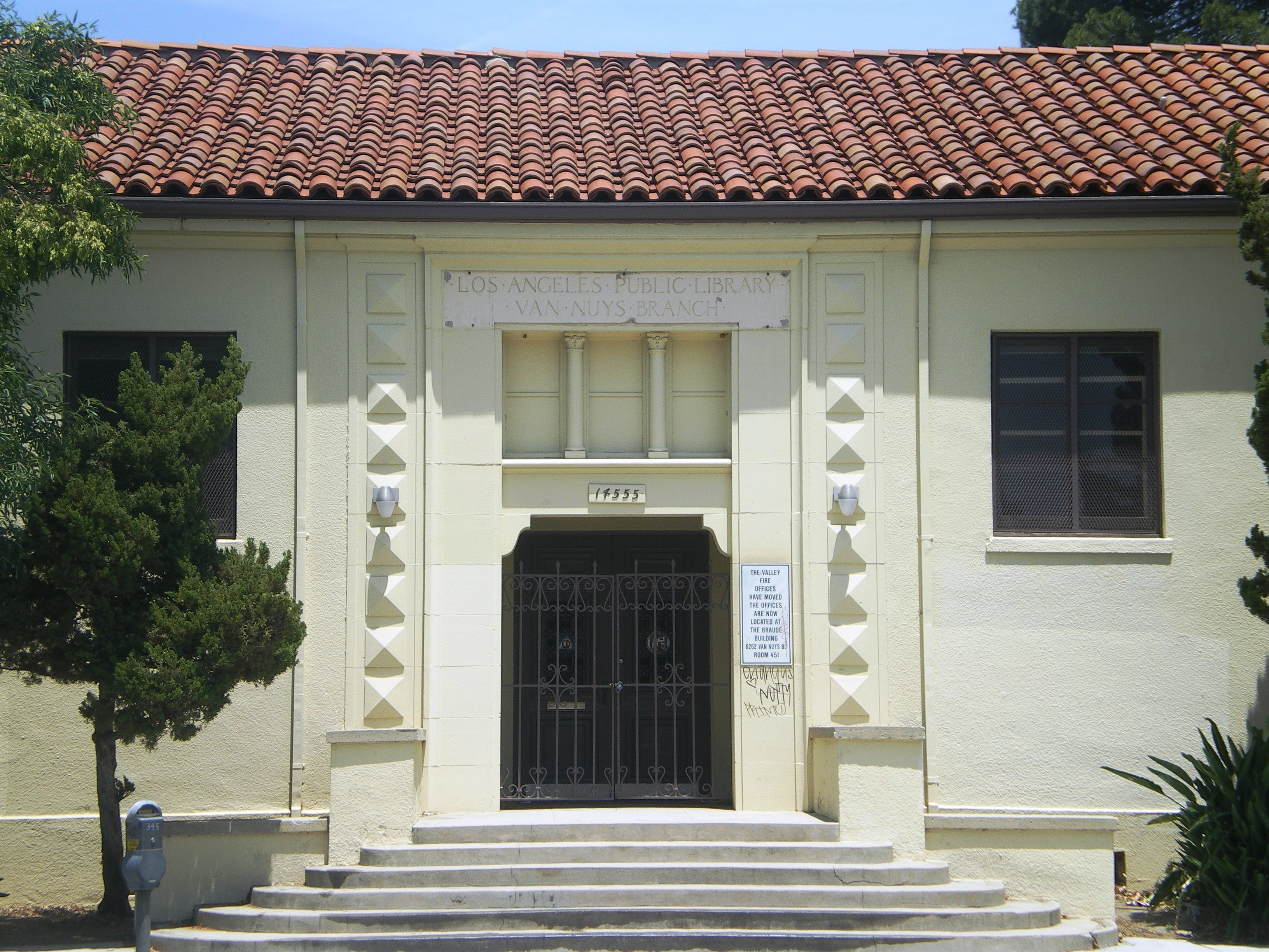 The former Van Nuys Branch Library — 14553 Sylvan, Van Nuys, central San Fernando Valley, in the City of Los Angeles, California. The 1926 Spanish Colonial Revival style building is a Los Angeles Historic-Cultural Monument, and on the National Register of Historic Places in Los Angeles.